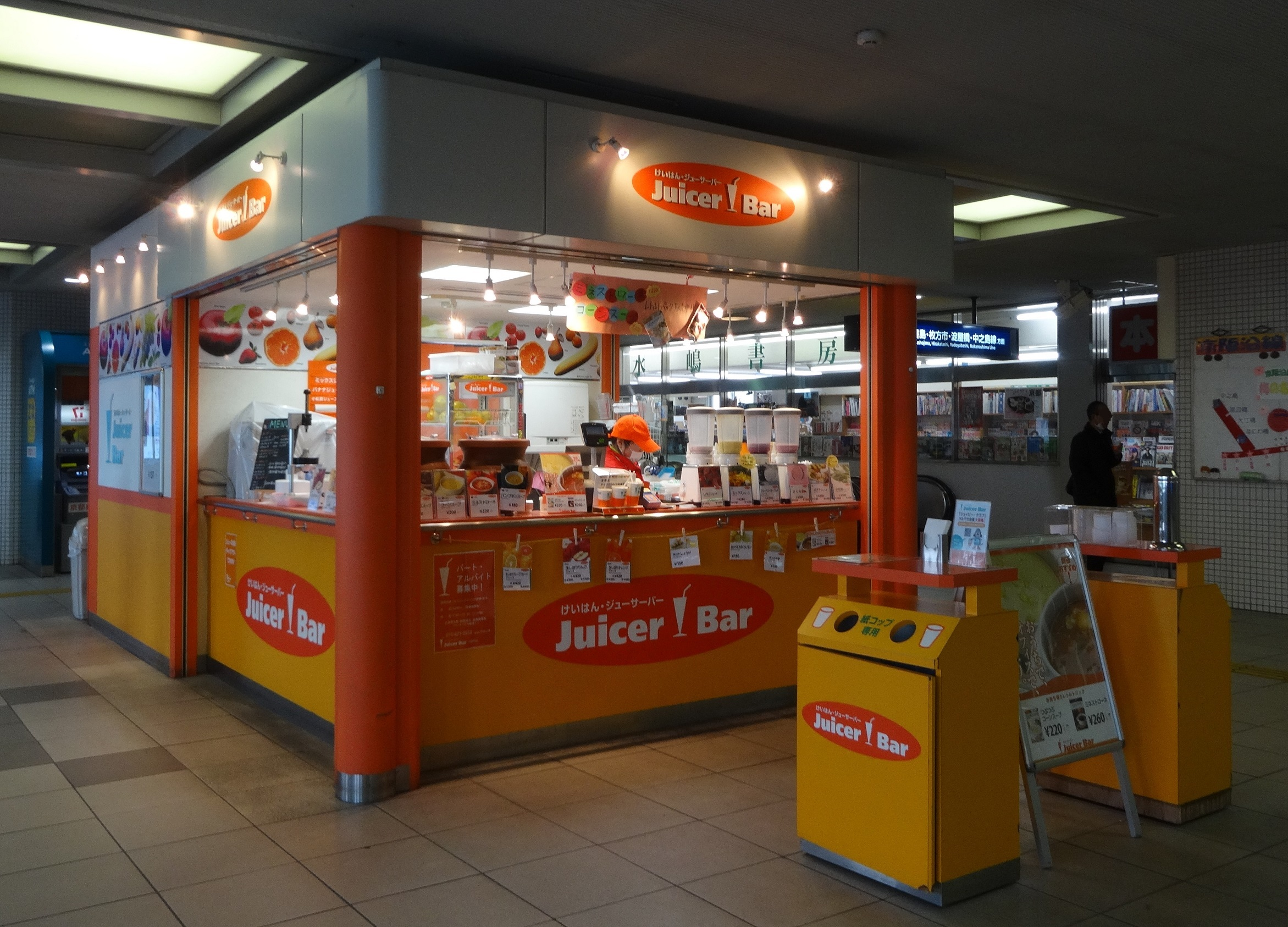 Juicer Bar Tambabashi(on Keihan Railway Kyoto,Japan)